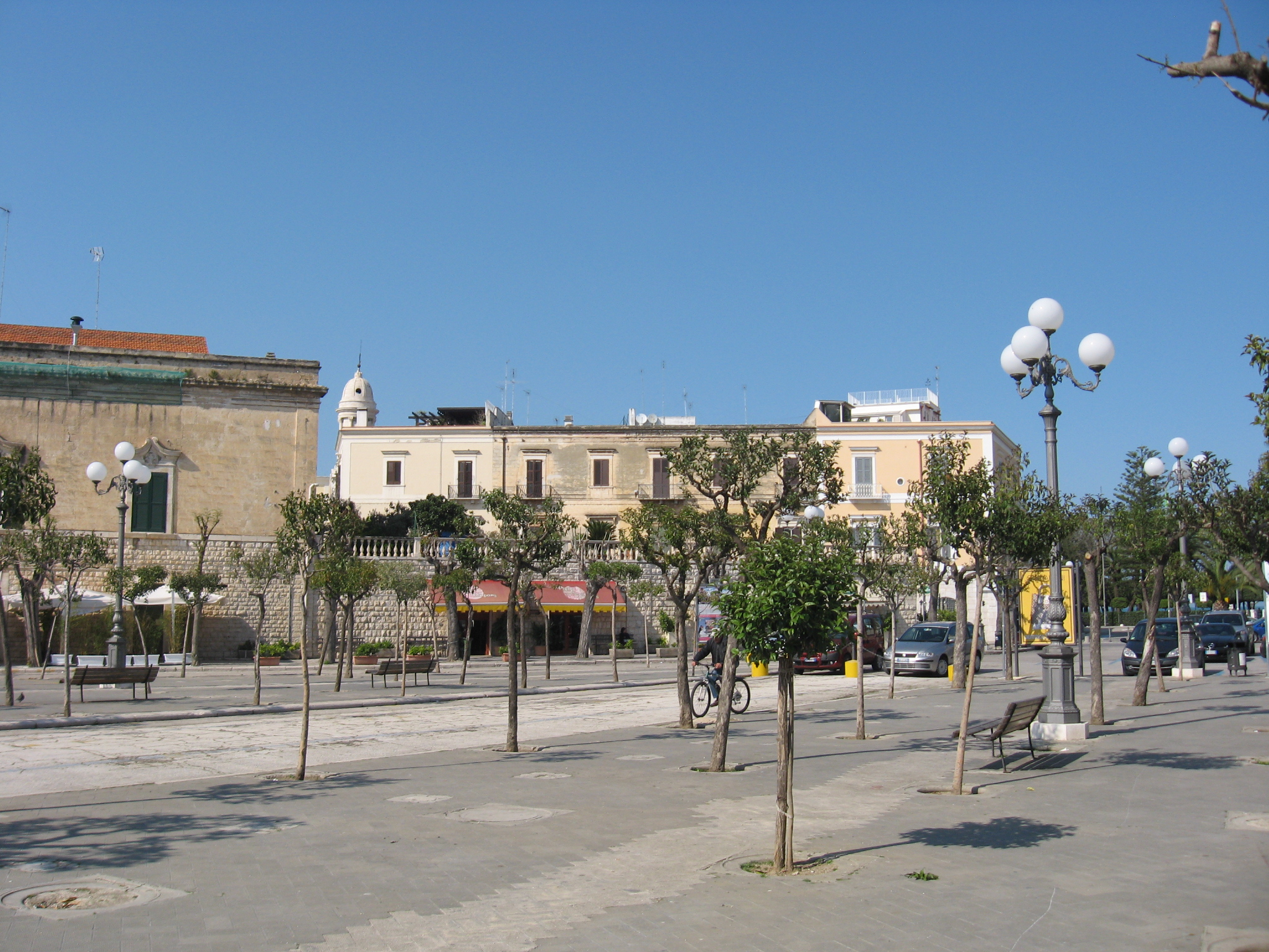 Trani: Piazza Plebiscito